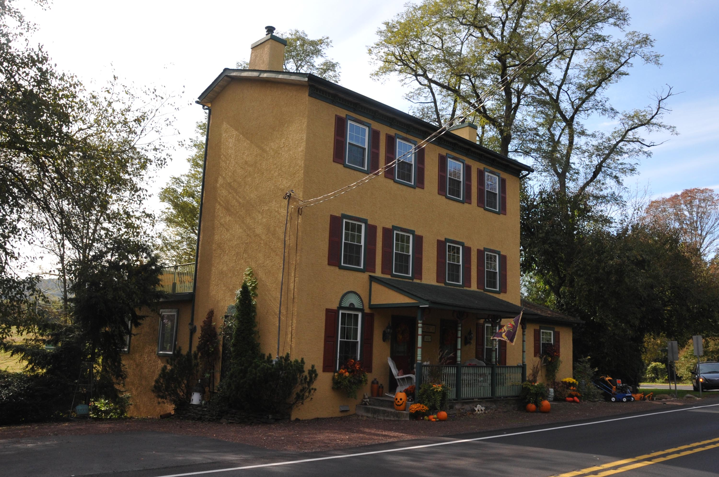 SMALL VILLAGE LOCATED AT THE JUNCTION OF RIVER ROAD AND BROWNSBURG ROAD. LARGELY DEVELOPED BY STACY BROWN FOR WHOM THE VILLAGE IS NAMED. THIS BUILDING WAS USED AS THE HOTEL ON THE SOUTHWEST CORNER AND WAS ALSO THE RESIDENCE OF DAVID LIVESEY